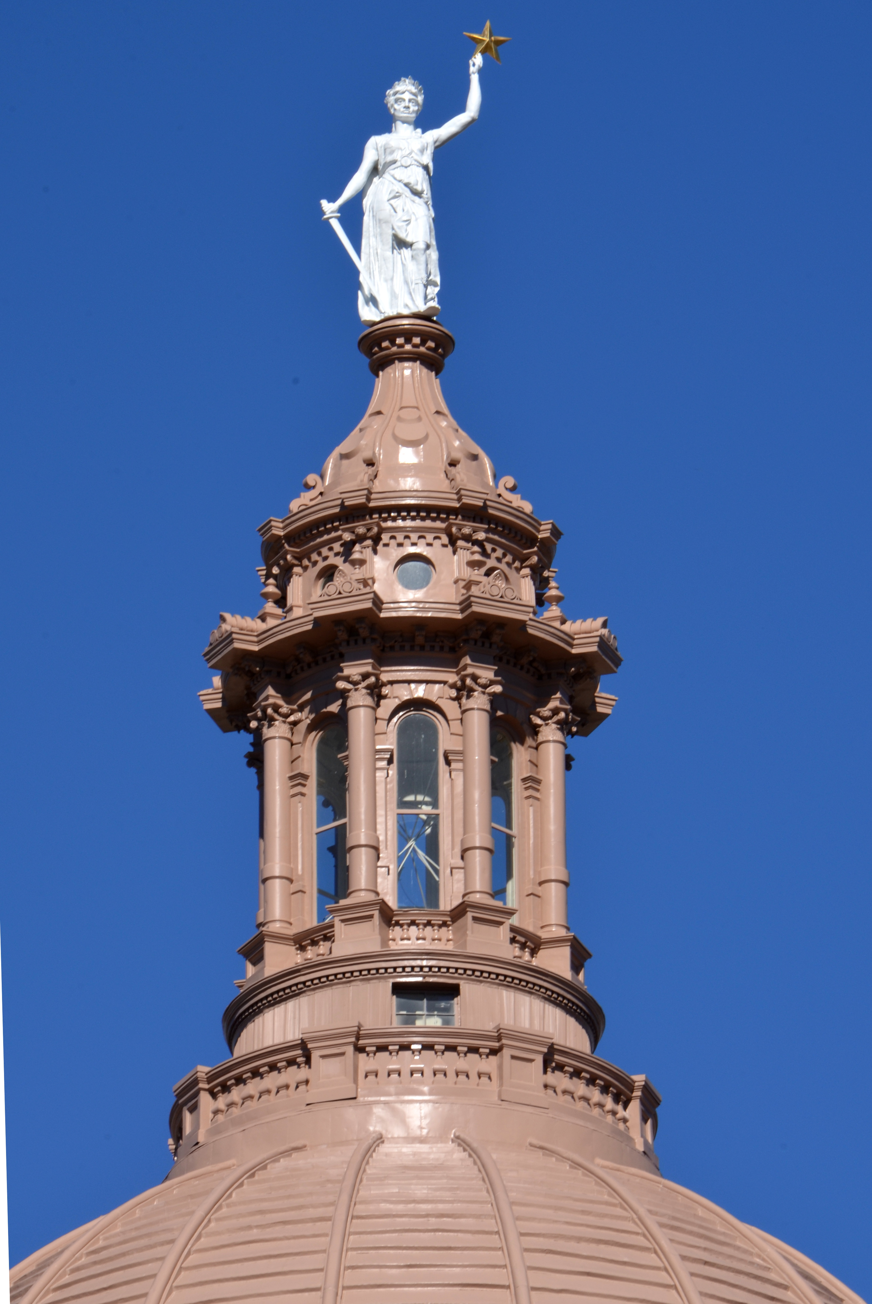 The dome lantern of the Texas State Capitol in Austin, Texas. The capitol is topped by the statue Goddess of Liberty.